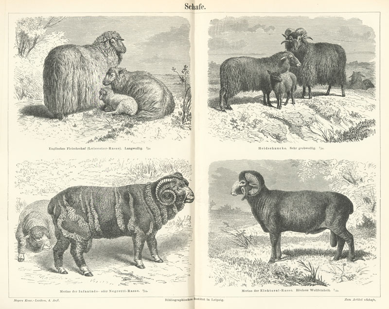 sheep